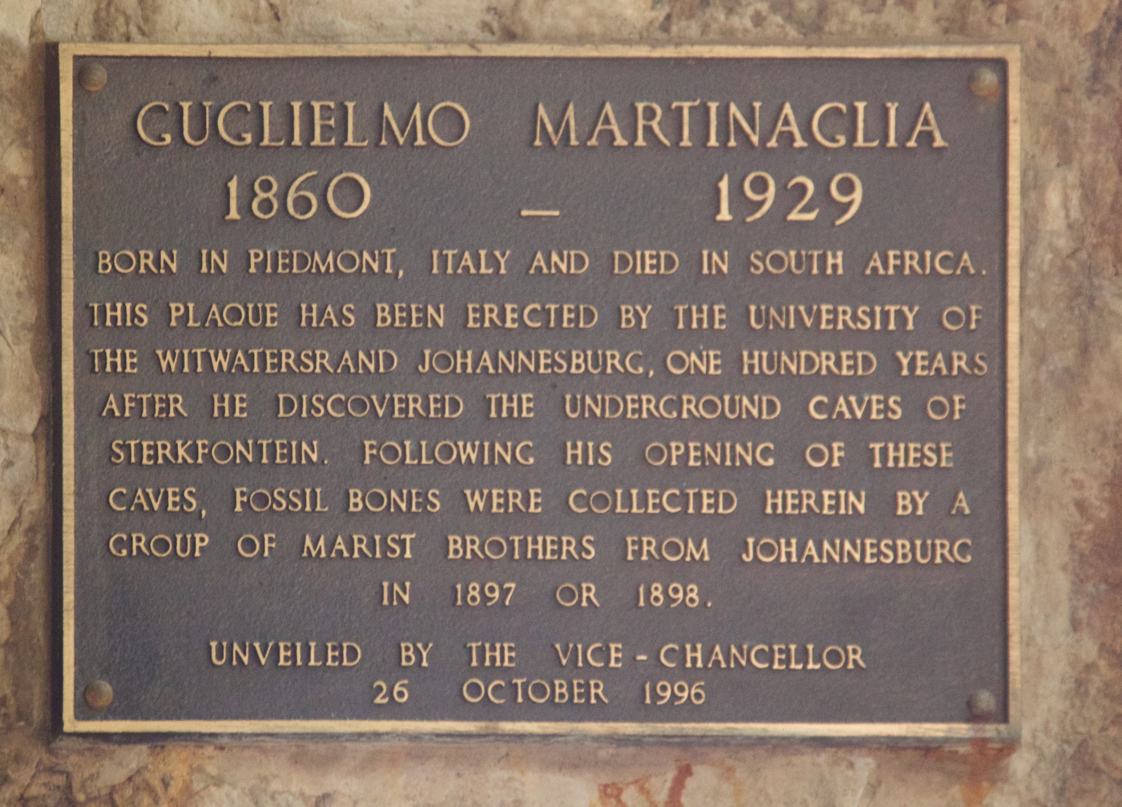 Memorial to Guglielmo Martinaglia (1860–1929) in the Sterkfontein caves. Guglielmo Martinaglia (1860–1929) Born in Piedmont, Italy and died in South Africa. This plaque has been erected by the University of the Witwatersrand Johannesburg, one hundred years after he discovered the underground caves of Sterkfontein. Following his opening of these caves, fossil bones were collected herein by a group of Marist brothers of Johannesburg in 1897 or 1898. Unveiled by the Vice-Chancellor 26 October 1996